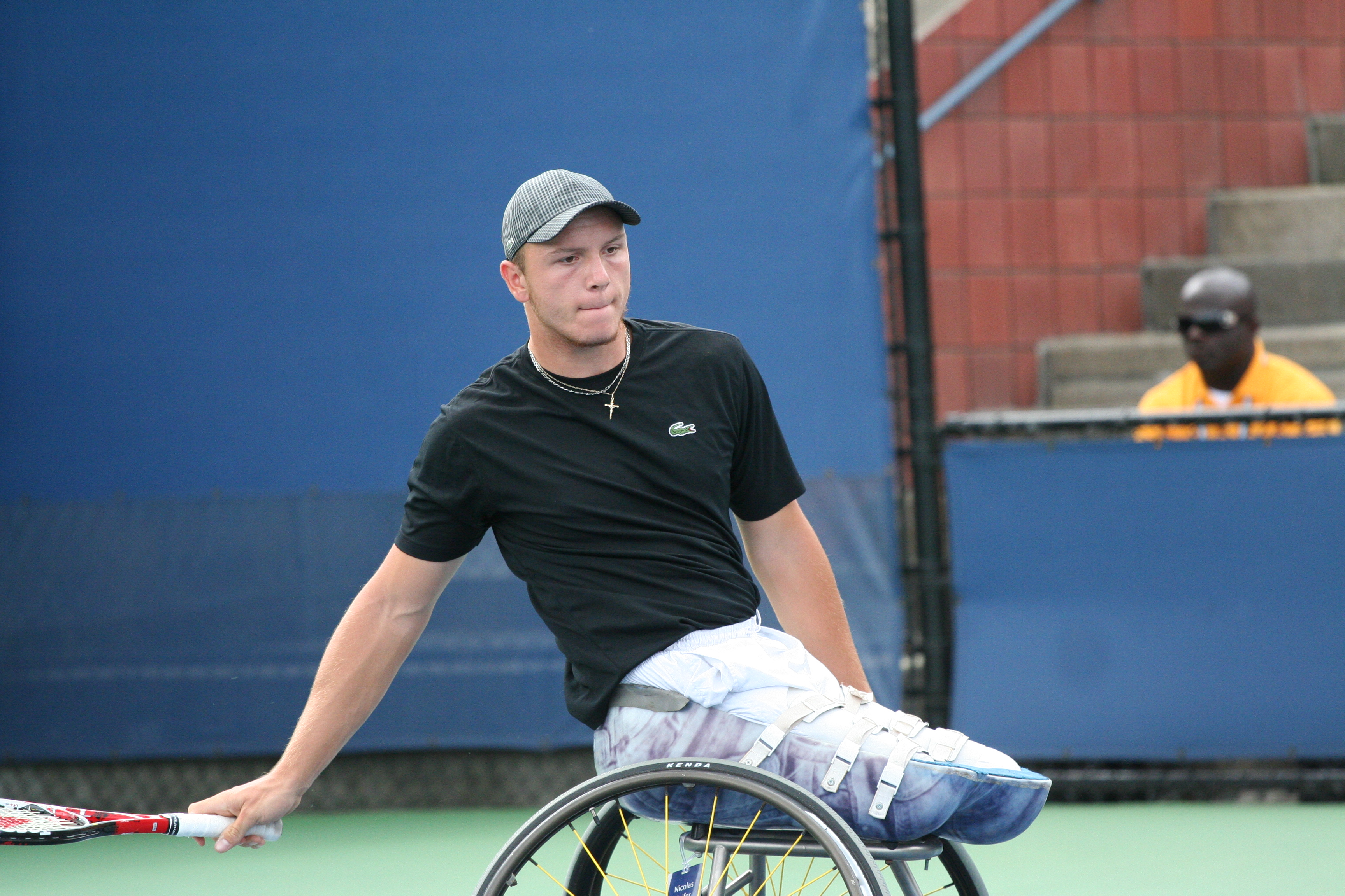 U.S. Open Juniors Sept. 10, 2010